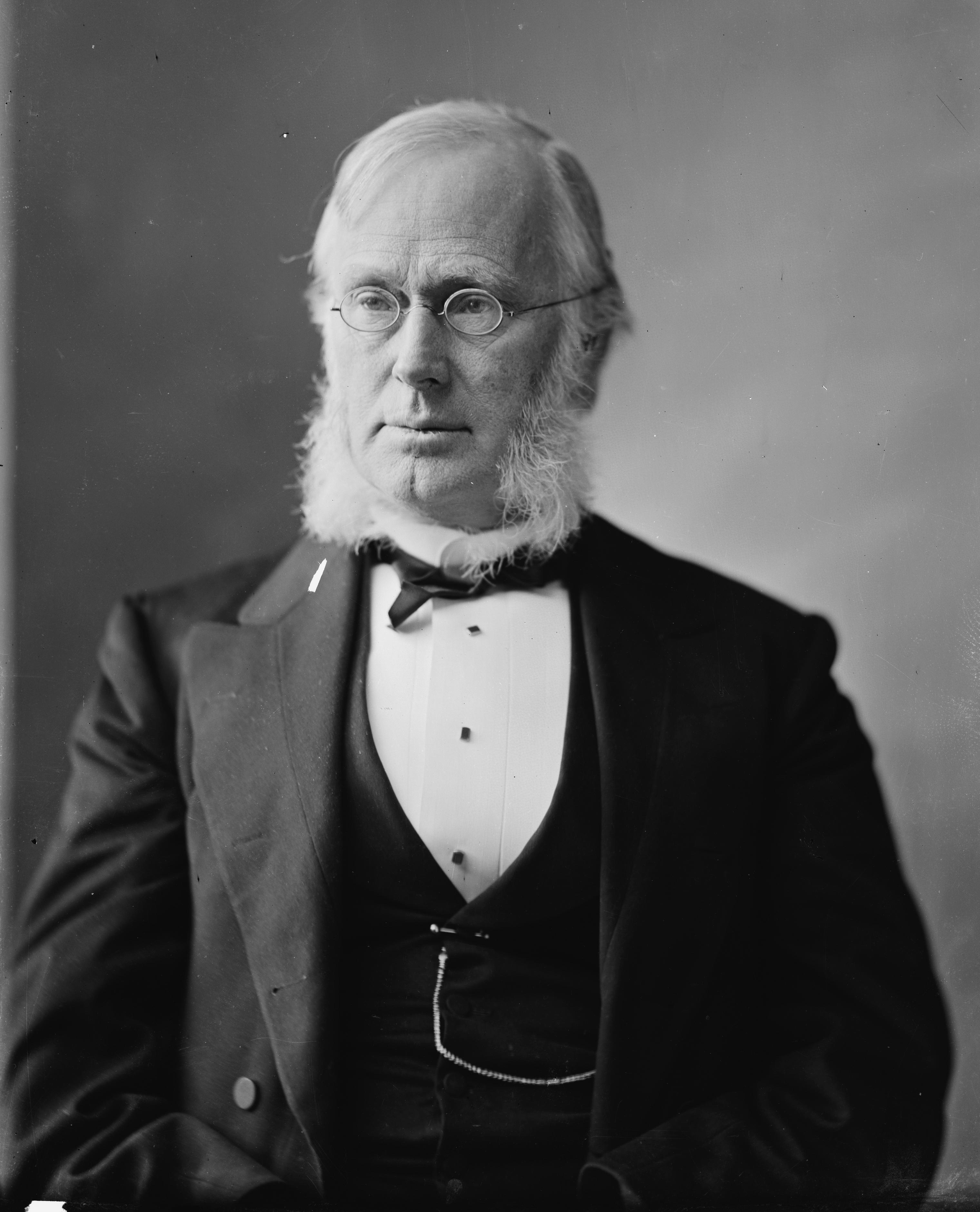 George Frisbie Hoar. Library of Congress description: "Senator Hoar of Mass"